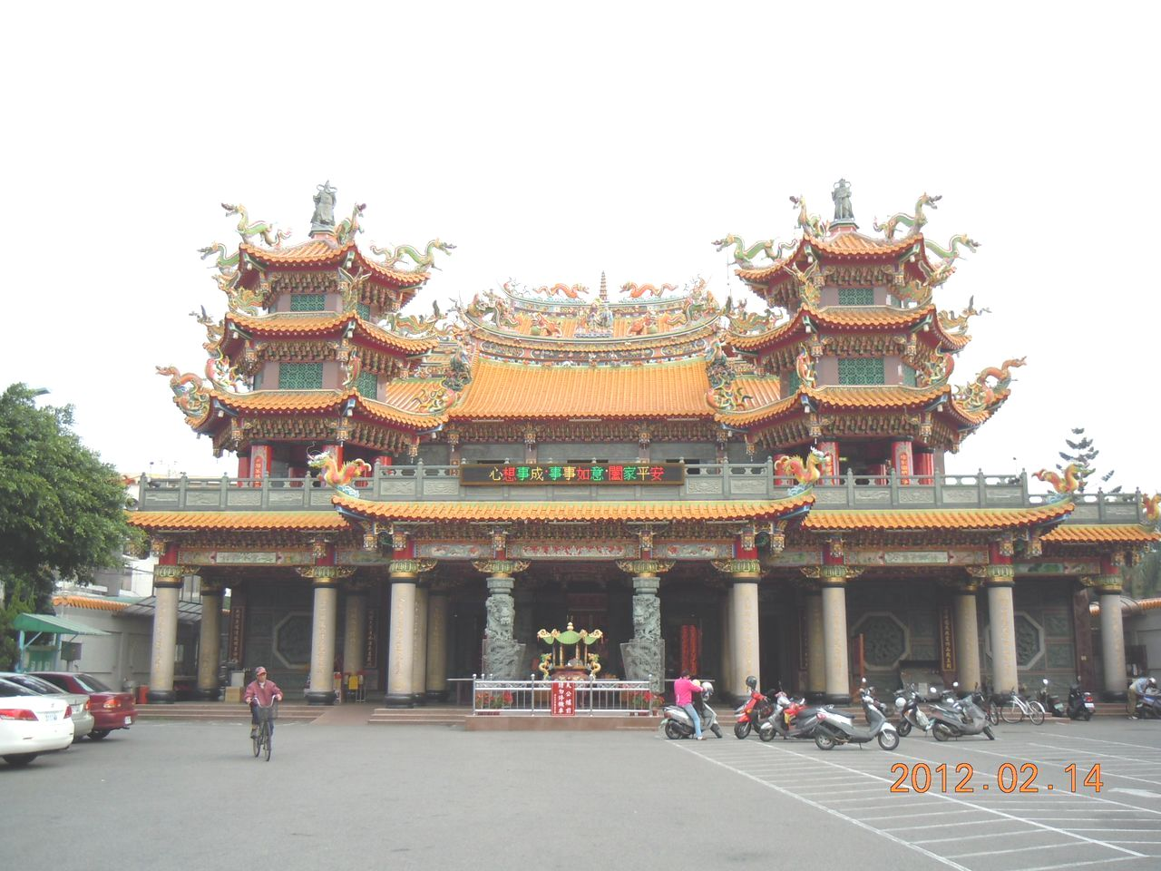 Tanshuiting Avalokiteśvara Temple, Tanzi District, Taichung.中文（台灣）: 位在臺中市潭子區潭陽里潭水亭觀音媽廟。